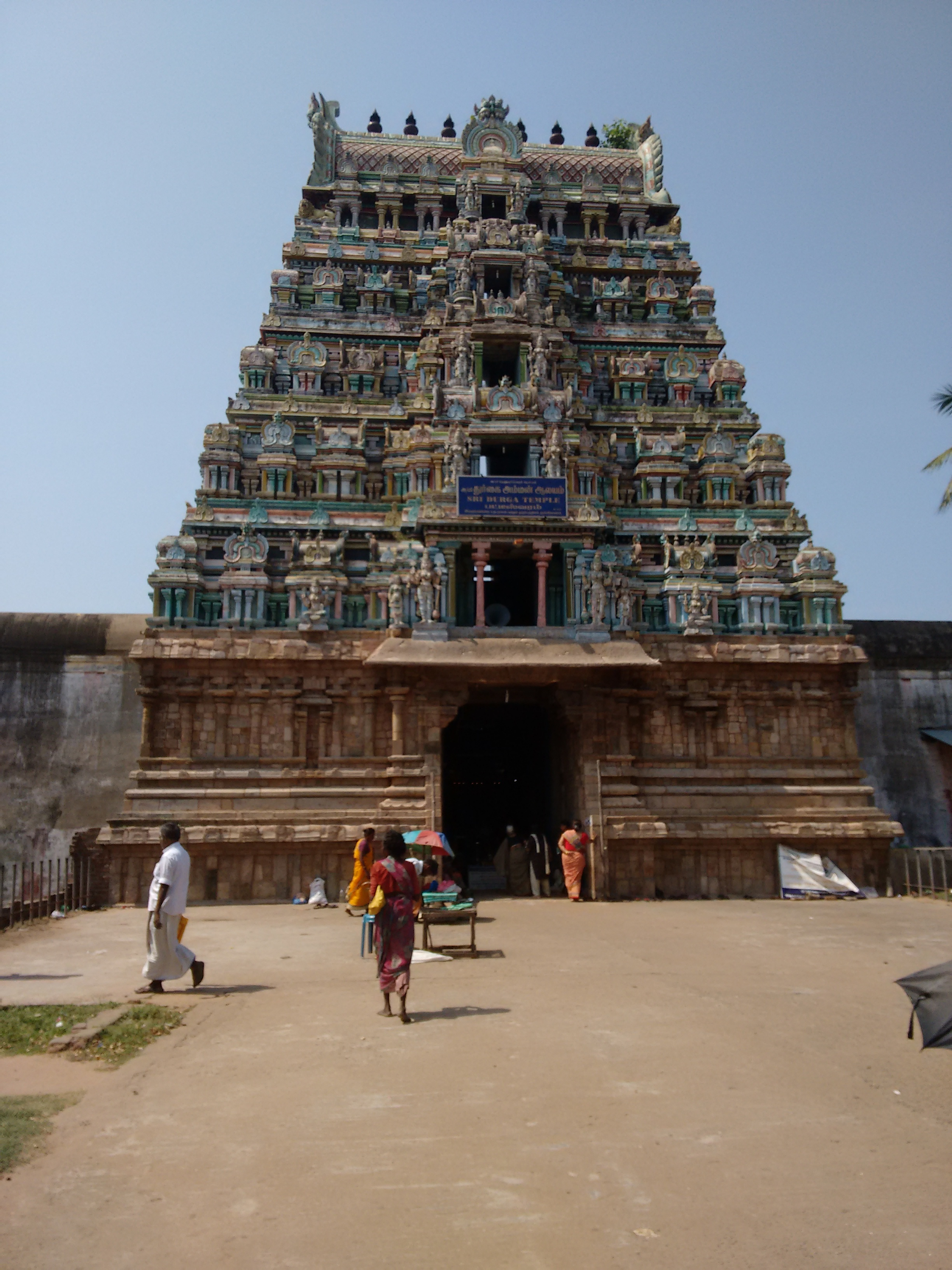 durga shrine in pattisvarar temple பட்டீஸ்வரர் கோயிலில் துர்க்கையம்மன் கோயில்